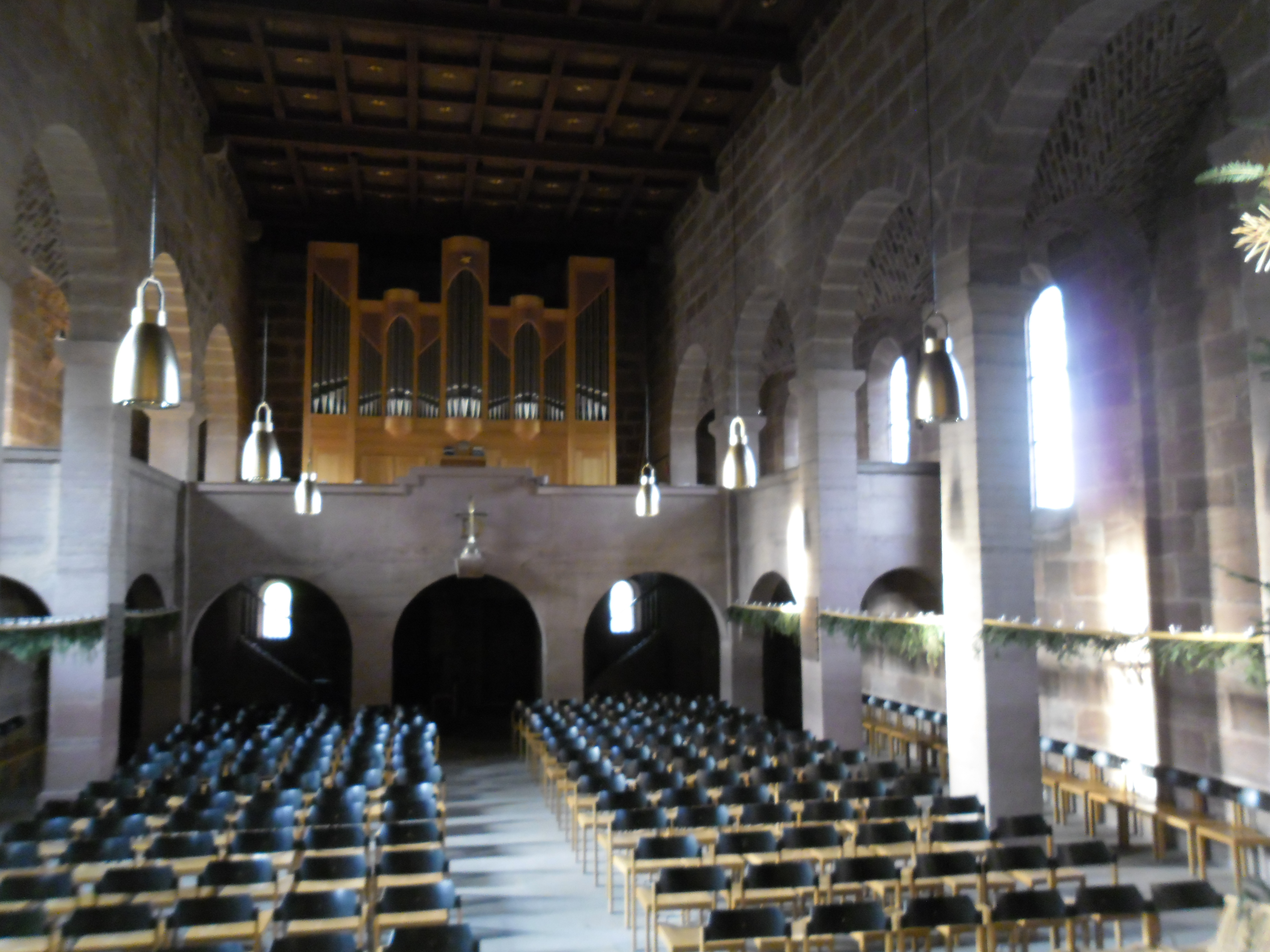 The Philip Church in Rummelsberg was created in 1927 under the direction of Christian Ruck